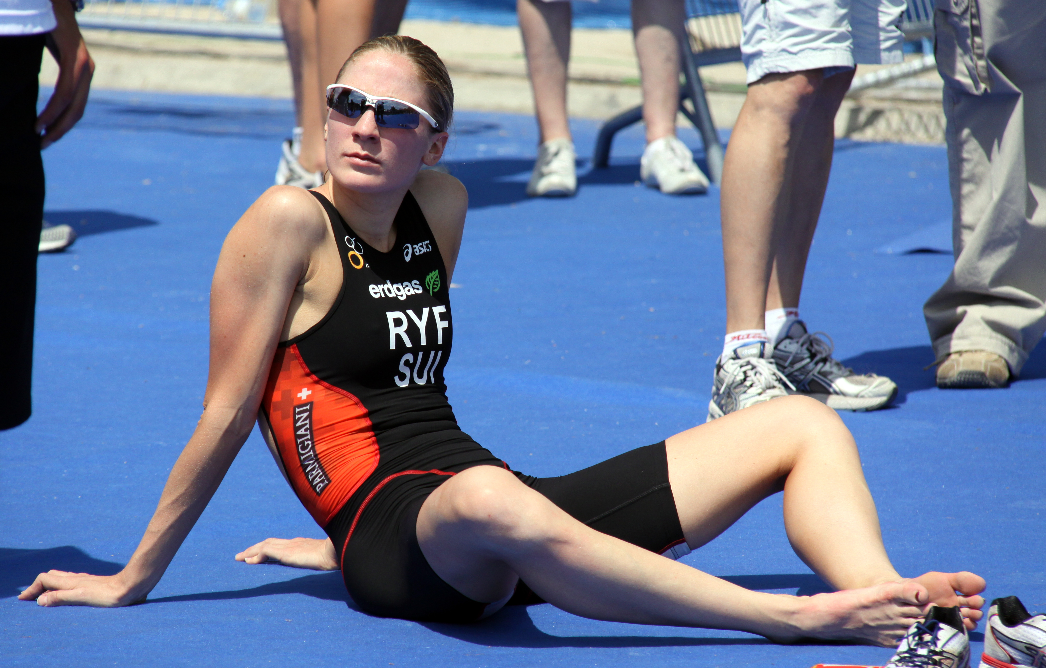 Daniela Ryf after the World Championship Series triathlon in Madrid, 2010.